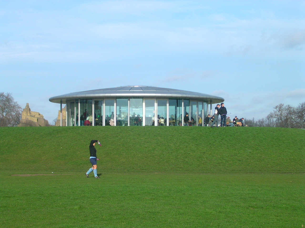 The Hub sports centre, Regents Park, London, England.